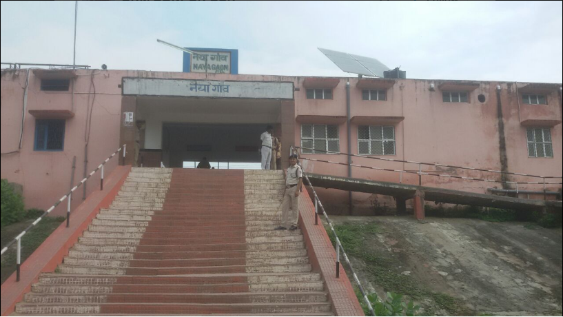 Nayagaon not naigaon new